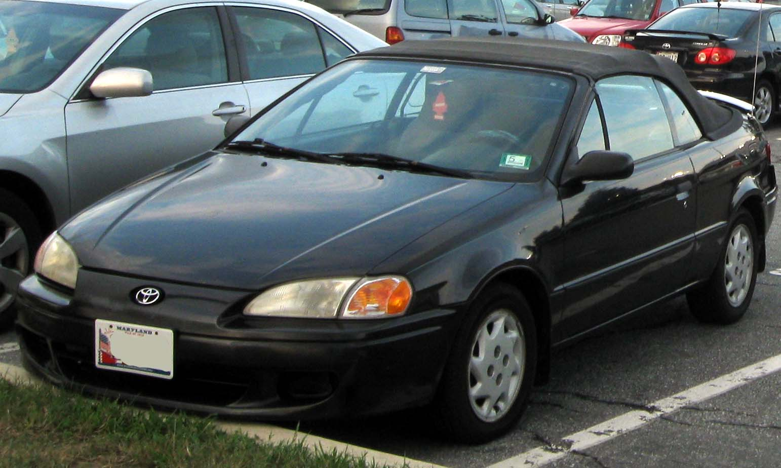 Toyota Paseo photographed in College Park, Maryland, USA.